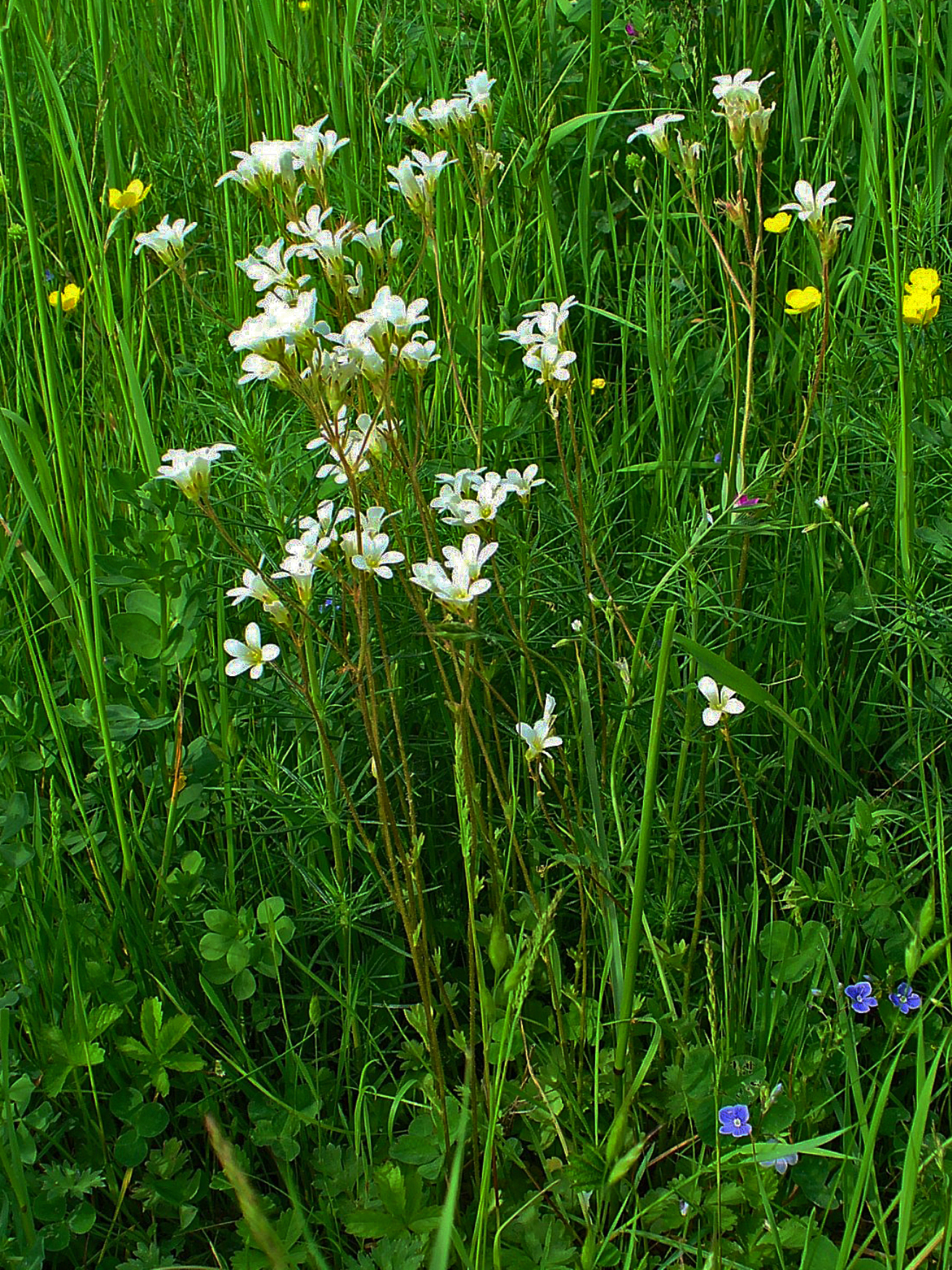 Saxifraga granulata, Saxifragaceae, Meadow Saxifrage, habitus. Karlsruhe, Germany.